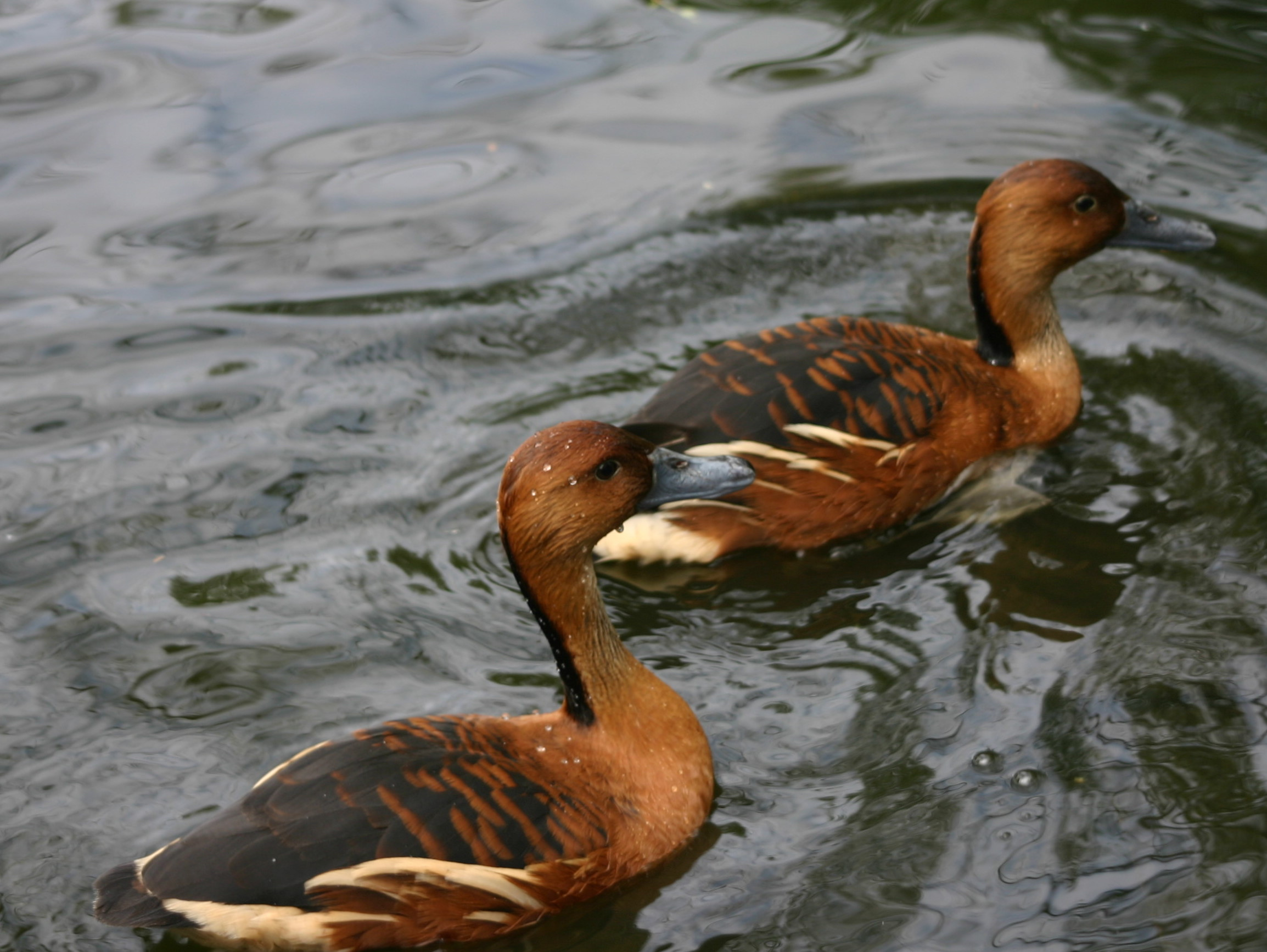 Two Fulvous Whistling Duck Dendrocygna bicolor